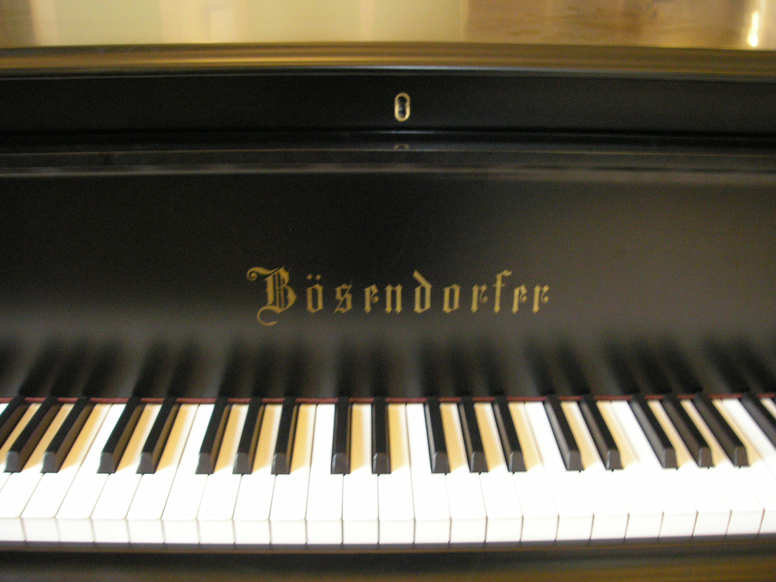 Image of a Bösendorfer piano, taken in the Gut Hohen Luckow, located in Mecklenburg.